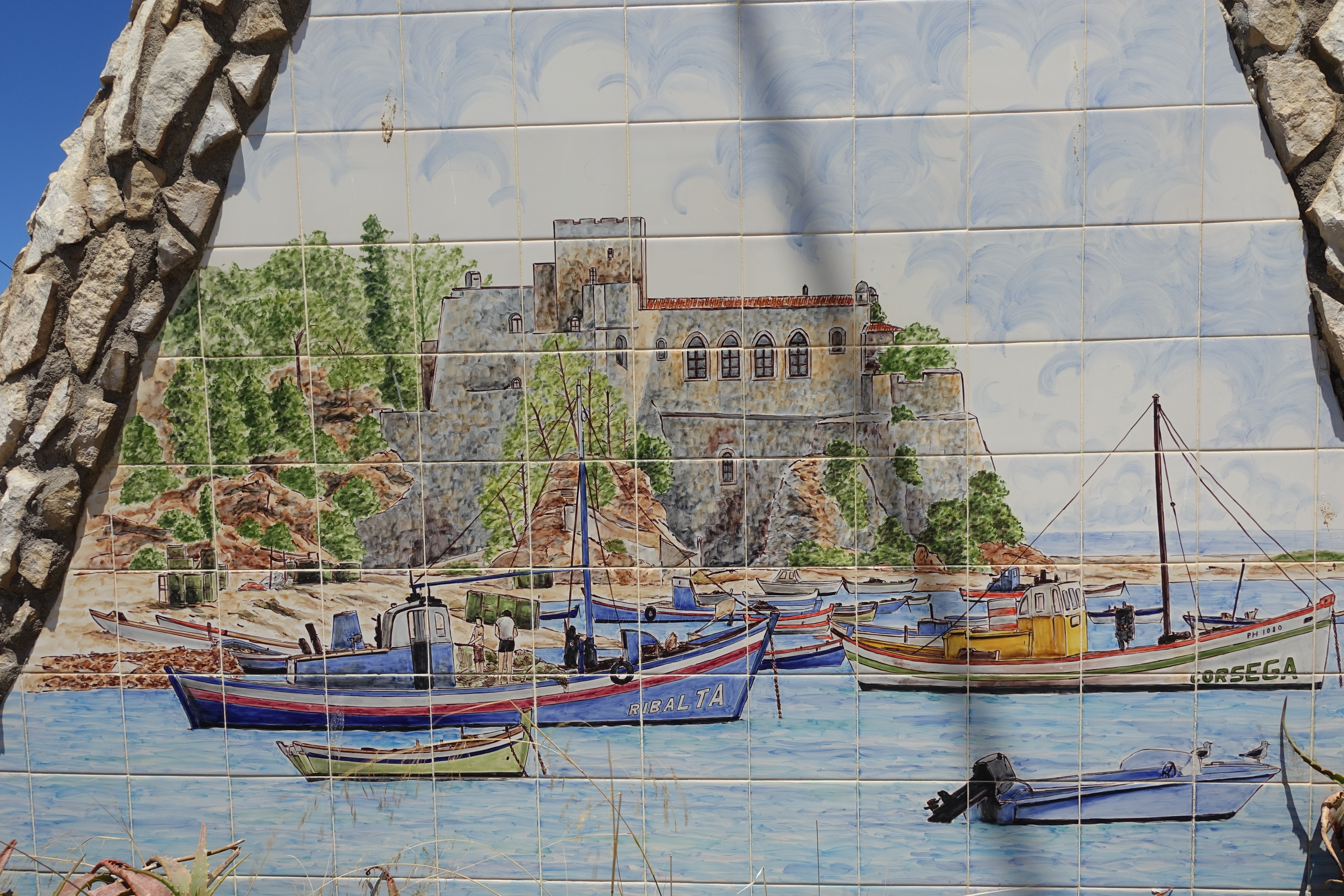 Azulejos in Ferragudo Algarve Portugal.